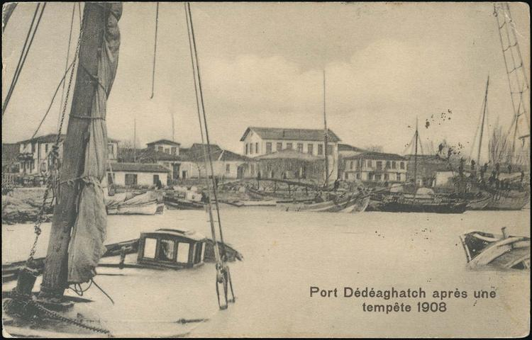 The harbour of Dedeagach after a storm in 1908.